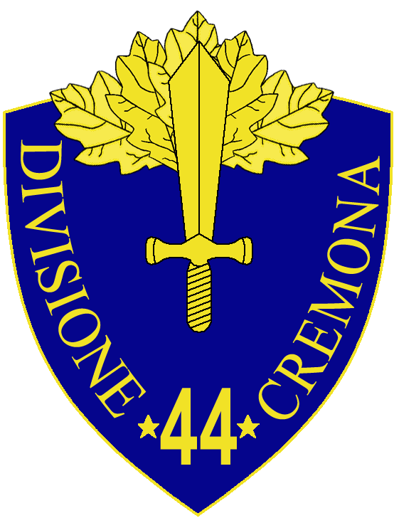 44a Divisione Fanteria Cremona insignia, Regio Esercito, Italy, WWII